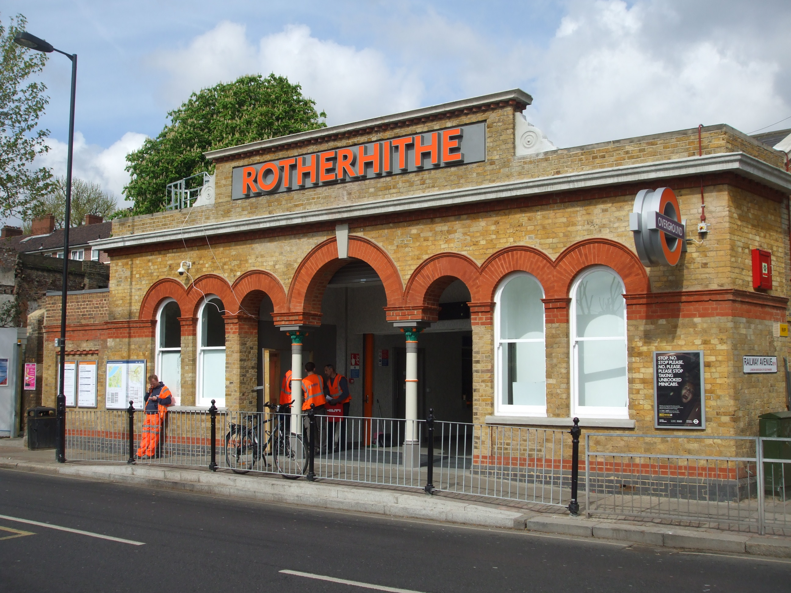 Rotherhithe station, a few days after re-opening as part of the London Overground in April 2010.